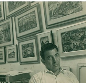 Photograph in public domain of the expressionist Polish painter, Maxim Bugzester